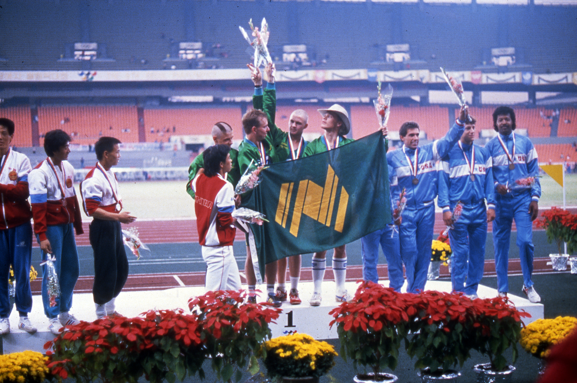 Medal ceremony for men's 4X100m amputee relay 1988 Seoul Paralympic Games